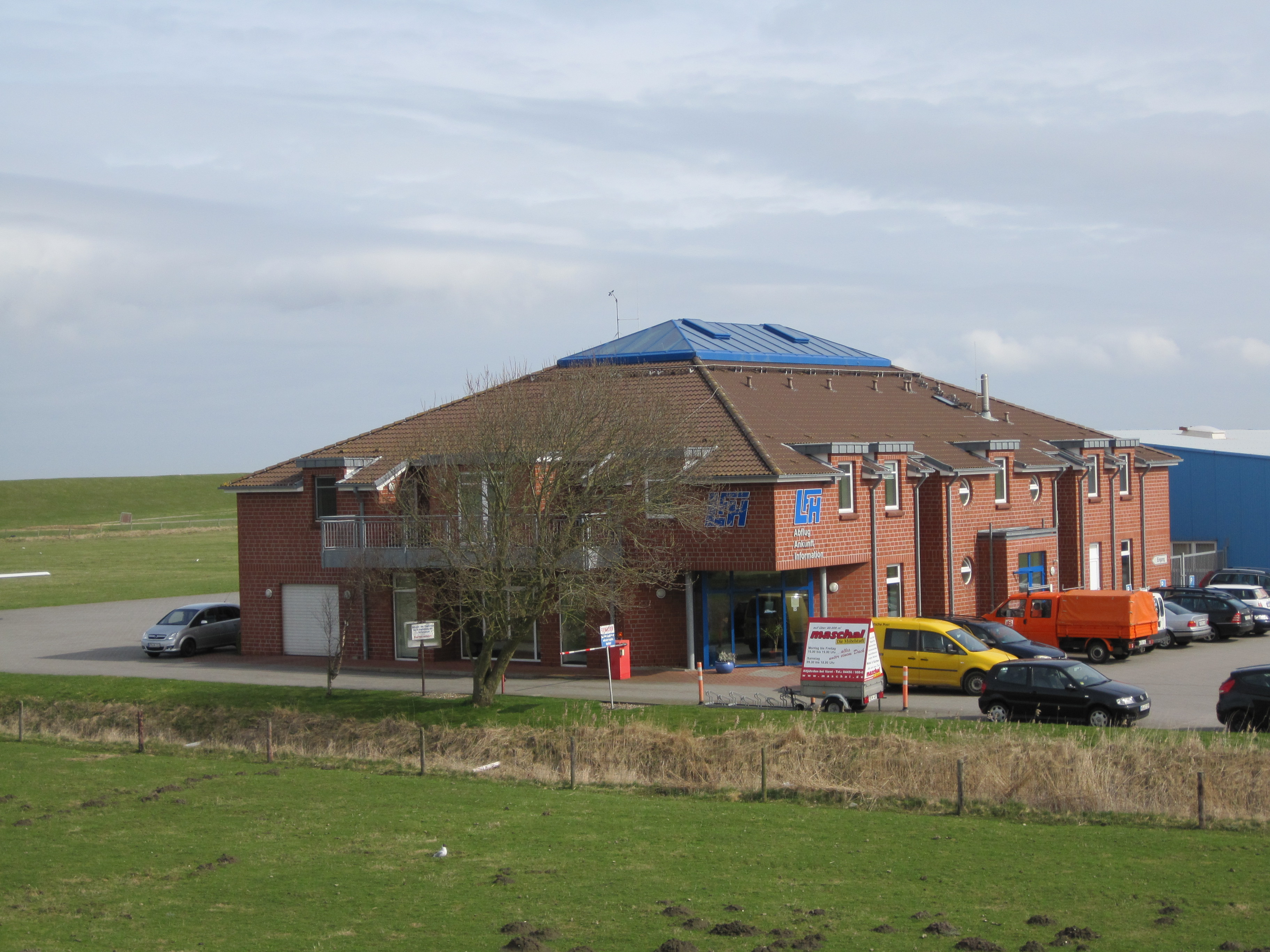 Harle airport (EDXP), Wittmund, Germany check usage